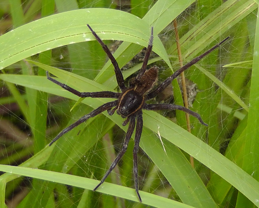 Striped male Dolomedes plantarius (Lisiņa river, Latvia)